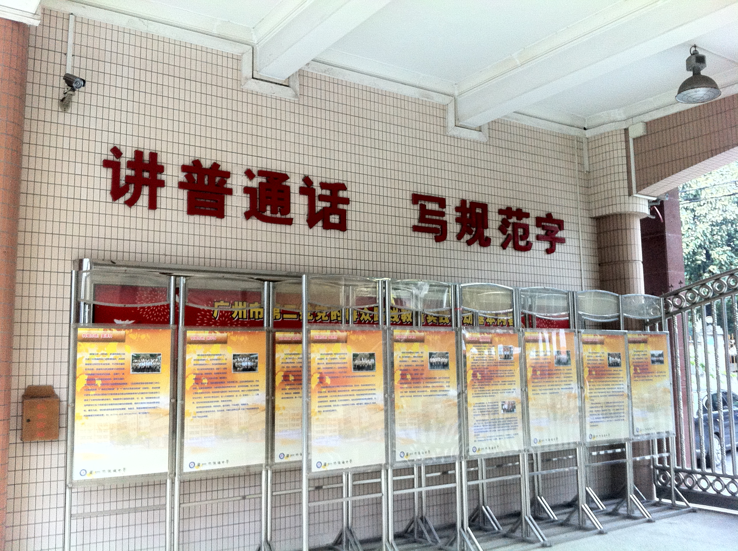 Notice stating: "Speak Mandarin, Write Standard Characters." -- Guangzhou Municipal Hengfu Secondary School (East Campus, former Guangzhou Shadong Secondary School)